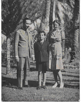 King Faisal II with his uncle and a governess Miss Rosa Linda Remus